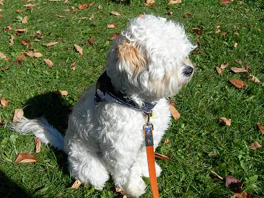 A full-grown Lhasa Poo